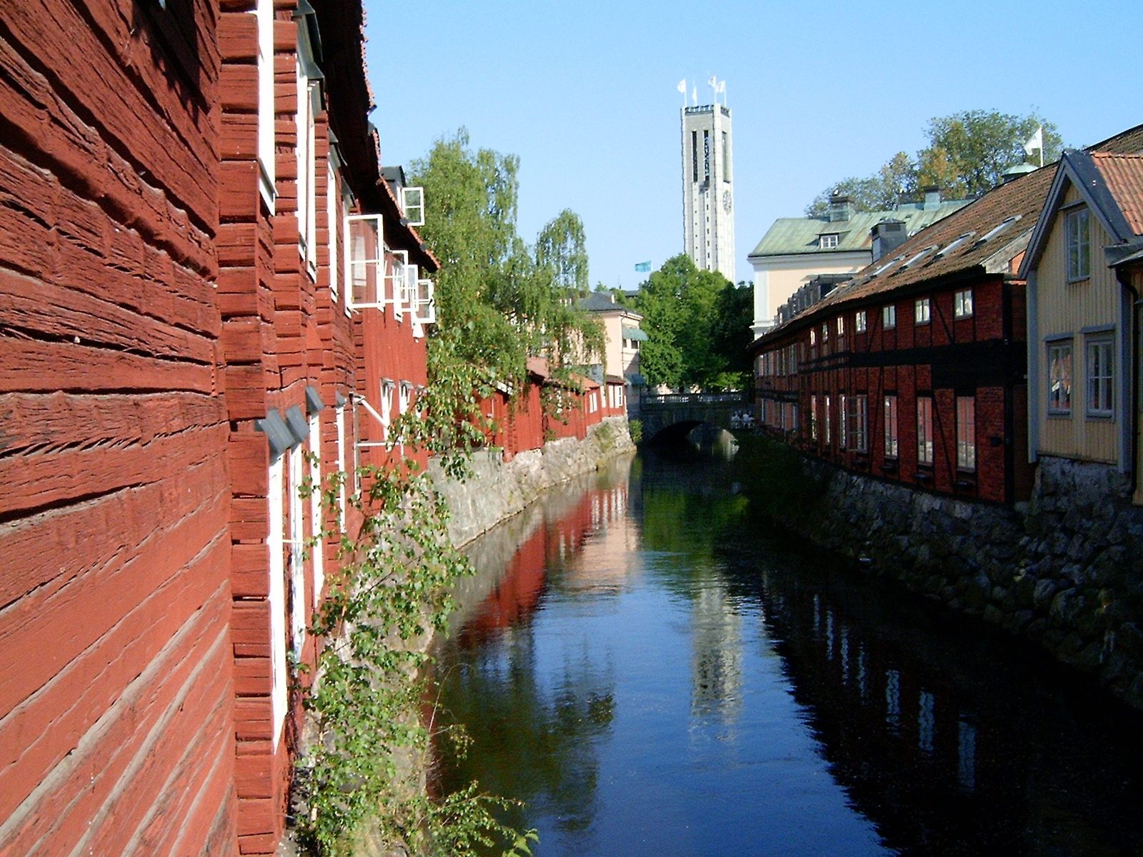 Svartån (Black creek) från the bridge apotekarbron in Västerås, Sweden. The town hall tower is visible and below is the bridge Storbron.